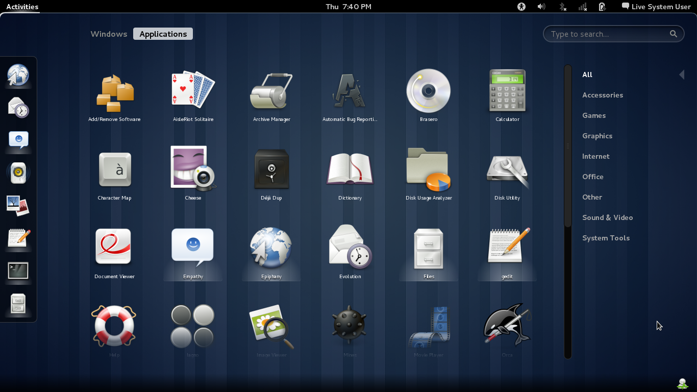 Gnome Shell Applications Screen